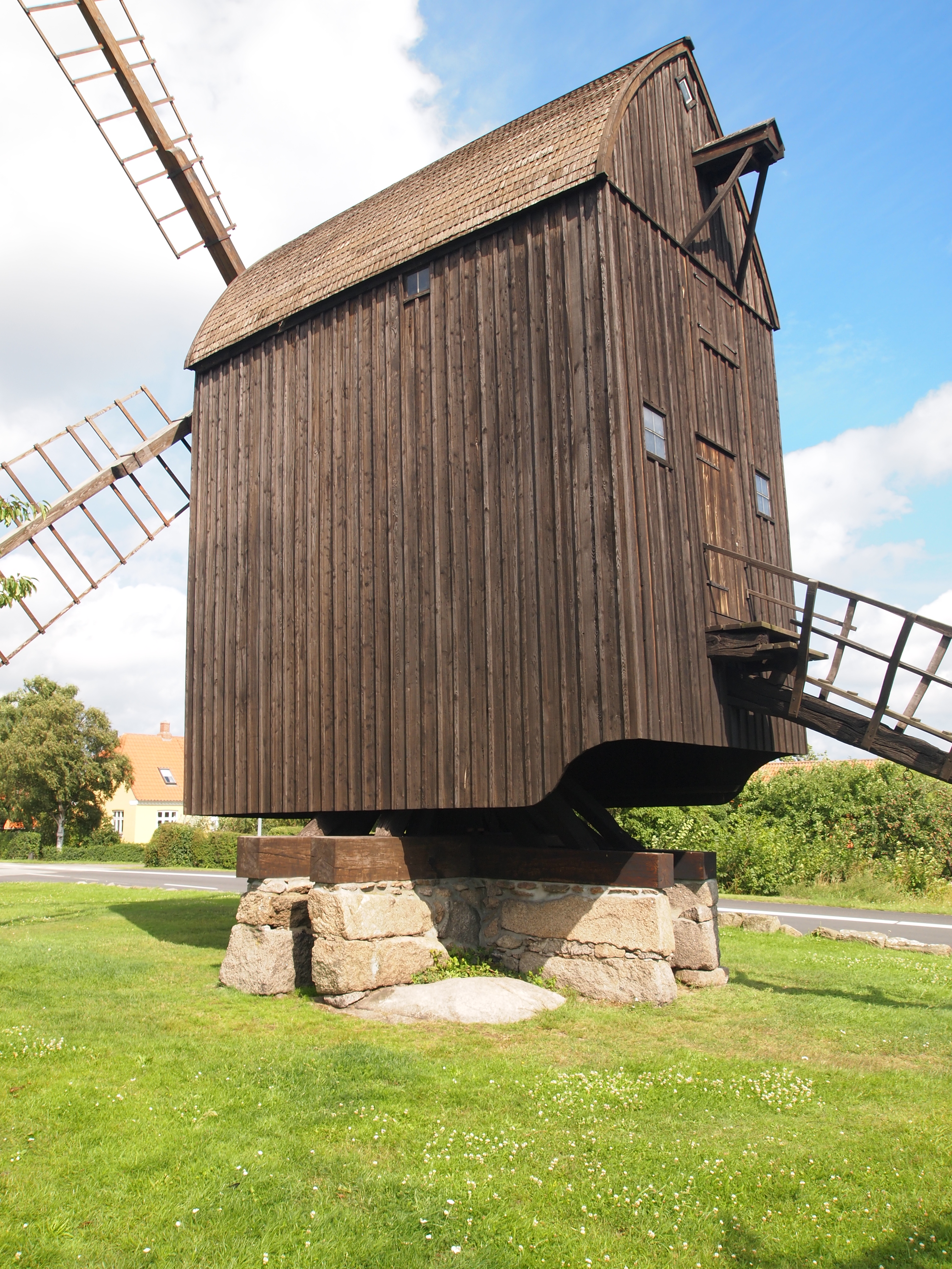 Bechs Mølle, the oldest windmill on the island of Bornholm in Denmark